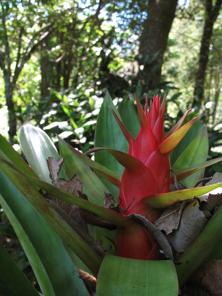 Tillandsia imperialis in habitat in El Salvador, Dept. Santa Ana, Parque Nacional Montecristo; 1841m.